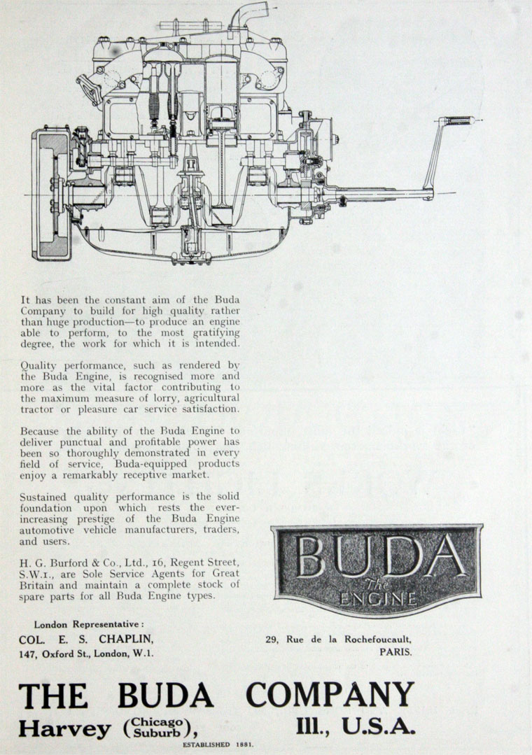 1920 advertisement for Buda engines. Buda was an American Company. This is a British ad, referring to British and French representants. Buda was the 2nd largest supplier for tuck engines, and also offered powerplants for automobiles, boats, farm and construnction implements. Pictured is a typical 4 cylinder truck engine.